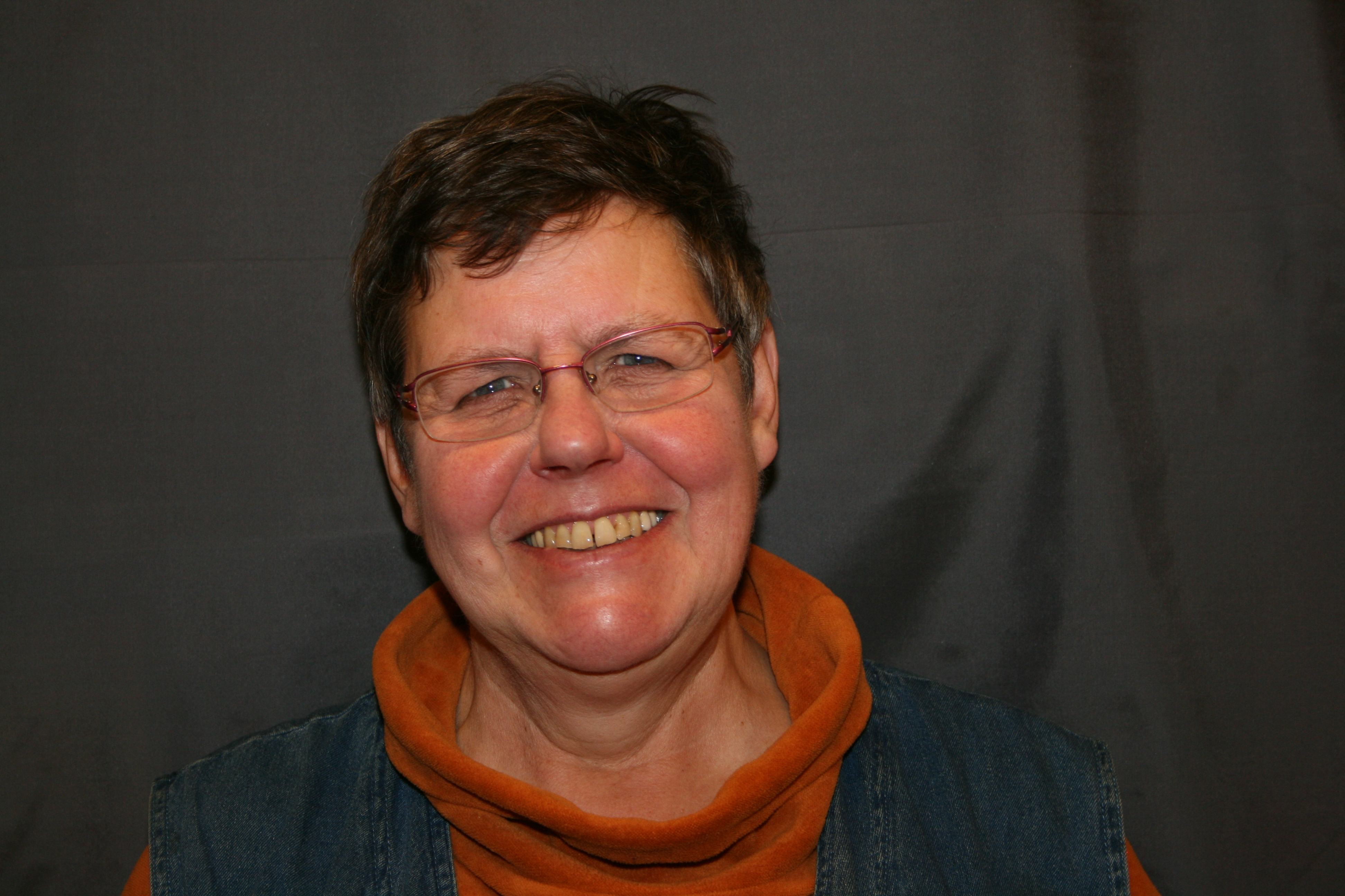 Ineke van Kessel, researcher at African Studies Centre, Leiden (The Netherlands), in 2013